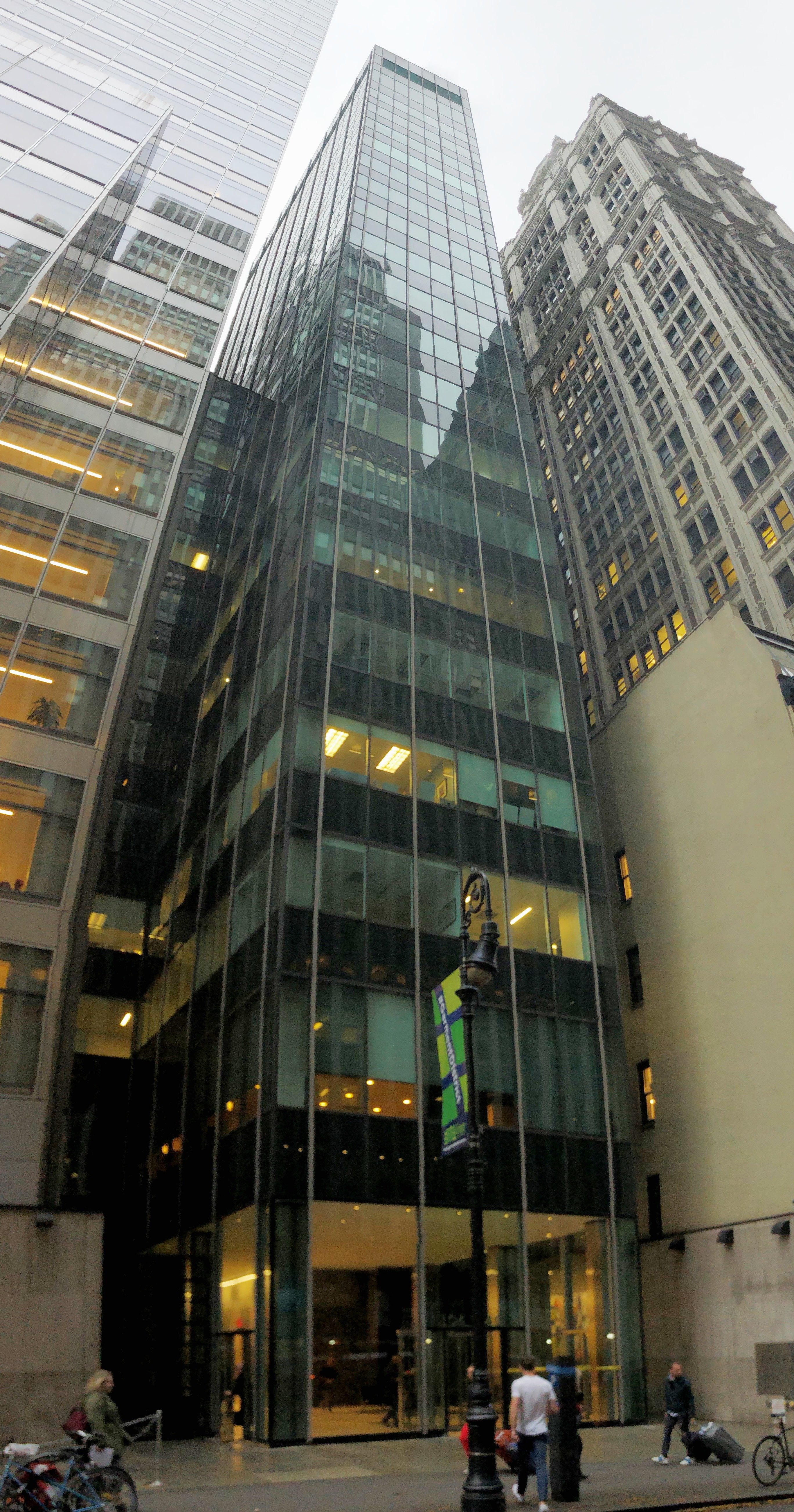 The Springs Mills Building, a 21-story building at 104 West 40th Street in Midtown Manhattan, New York City, is an International-style skyscraper designed by Harrison & Abramovitz, Charles H. Abbe chief designer, and built in 1961–1963. It was designated a New York City landmark in 2010. (Source: NYCLPC Designation Report)